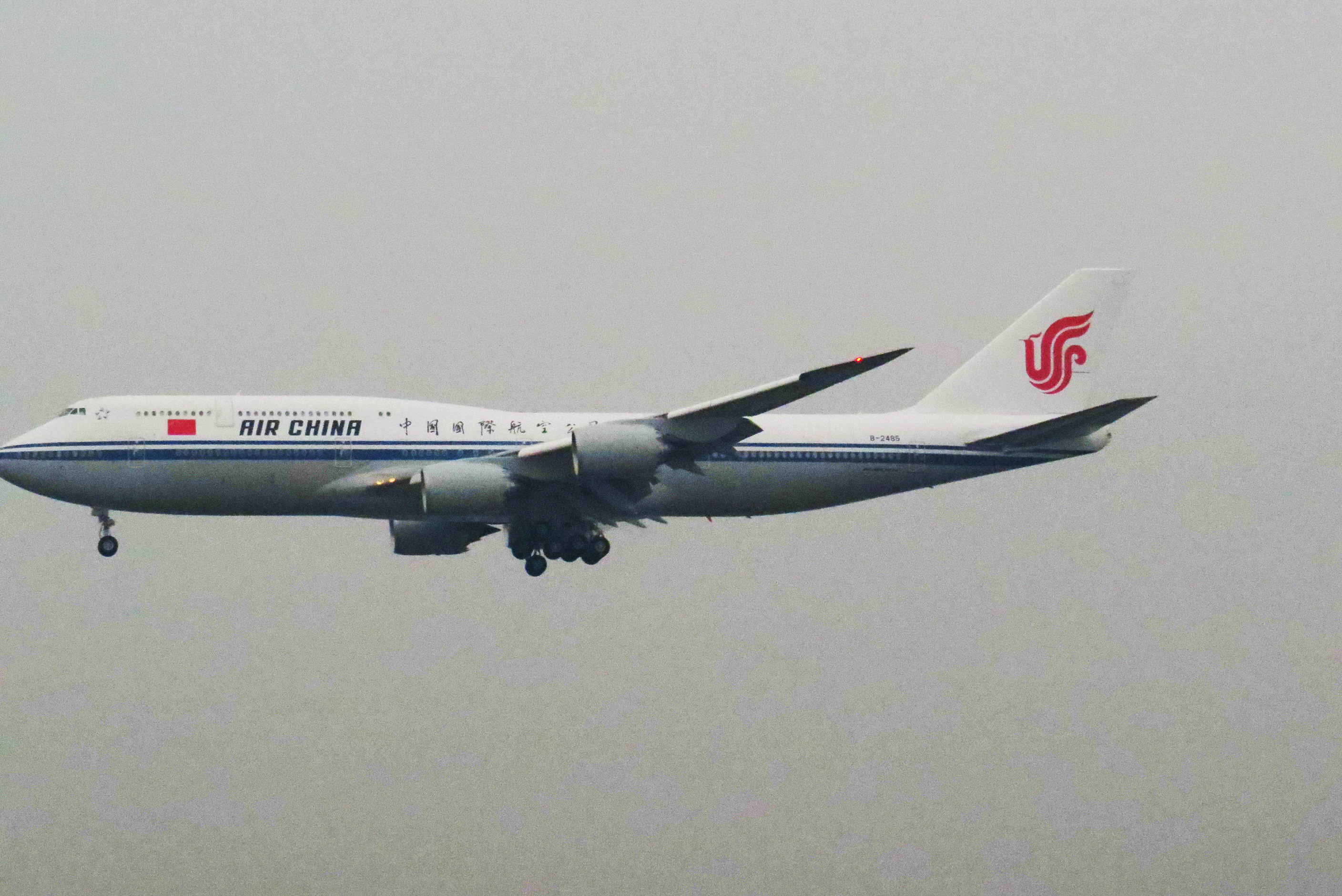 Welcome, the new Queen of the skies! This one is delivered during the 65th anniversary of PRC. Longer than previous 747s...